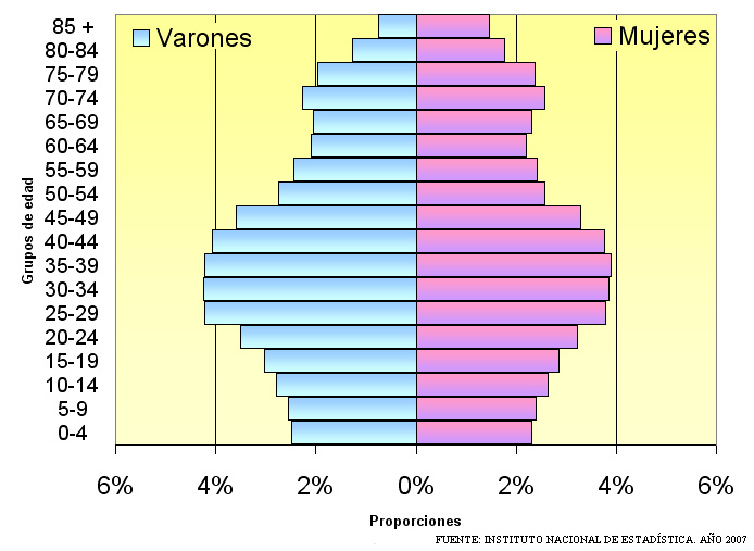 By age and sex composition of the population of Castilla-La Mancha.